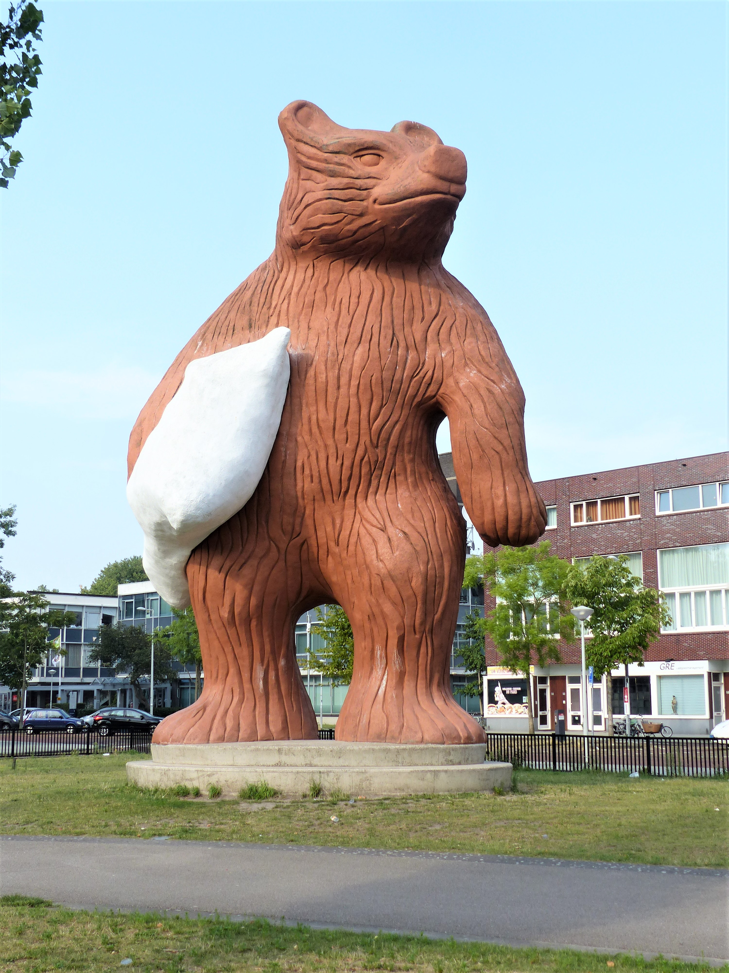 At the Bear. Slotervaart, Amsterdam, on the 27th of July, 2019. In the close vicinity of the Bearː Elisabeth Bodaerstraat, Ottho Heldringstraat etc.